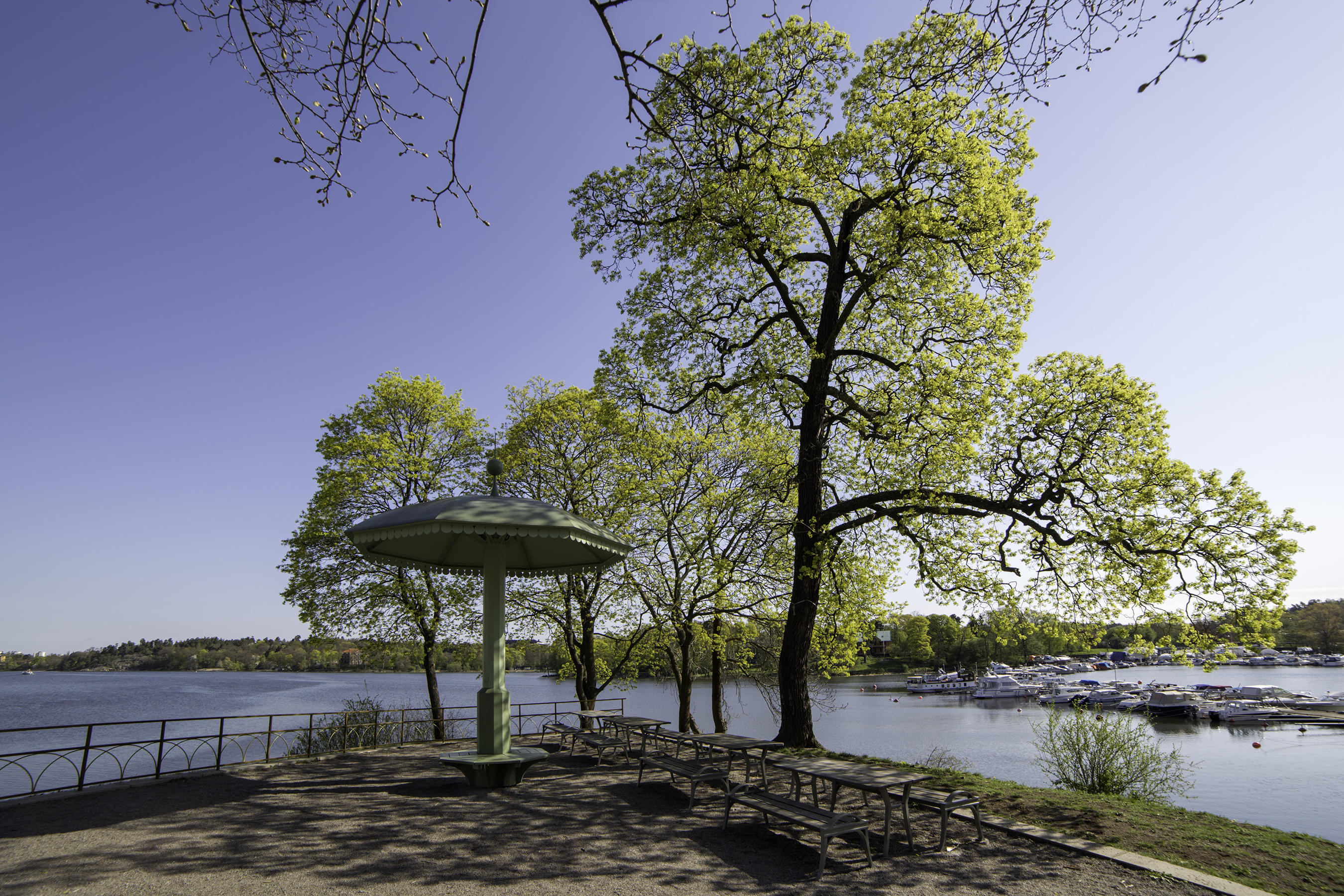 The Bellevue Park at Brunnsviken. The trees are turning green again.